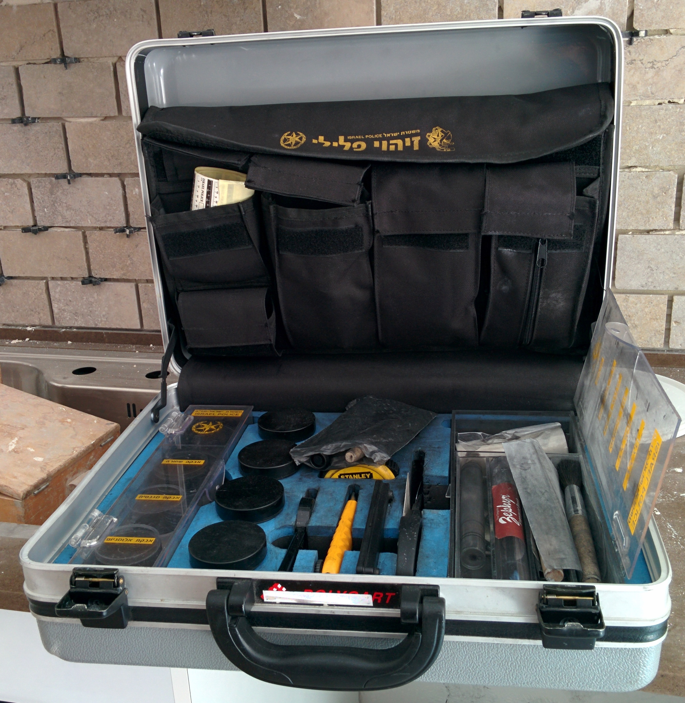 Forensic toolbox of the Israeli police